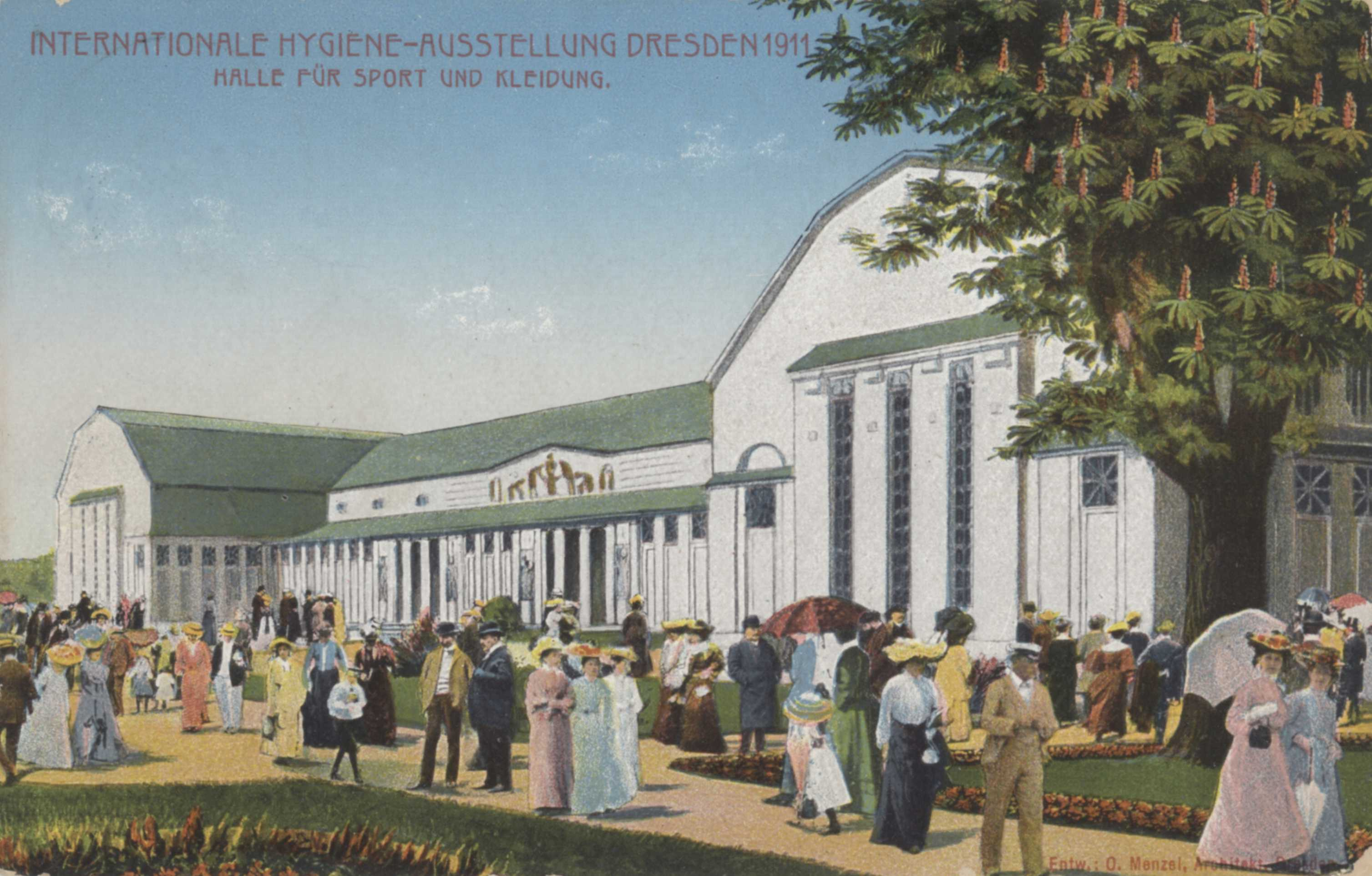 International Hygiene Exhibition Dresden 1911 (hall of sport and clothes)